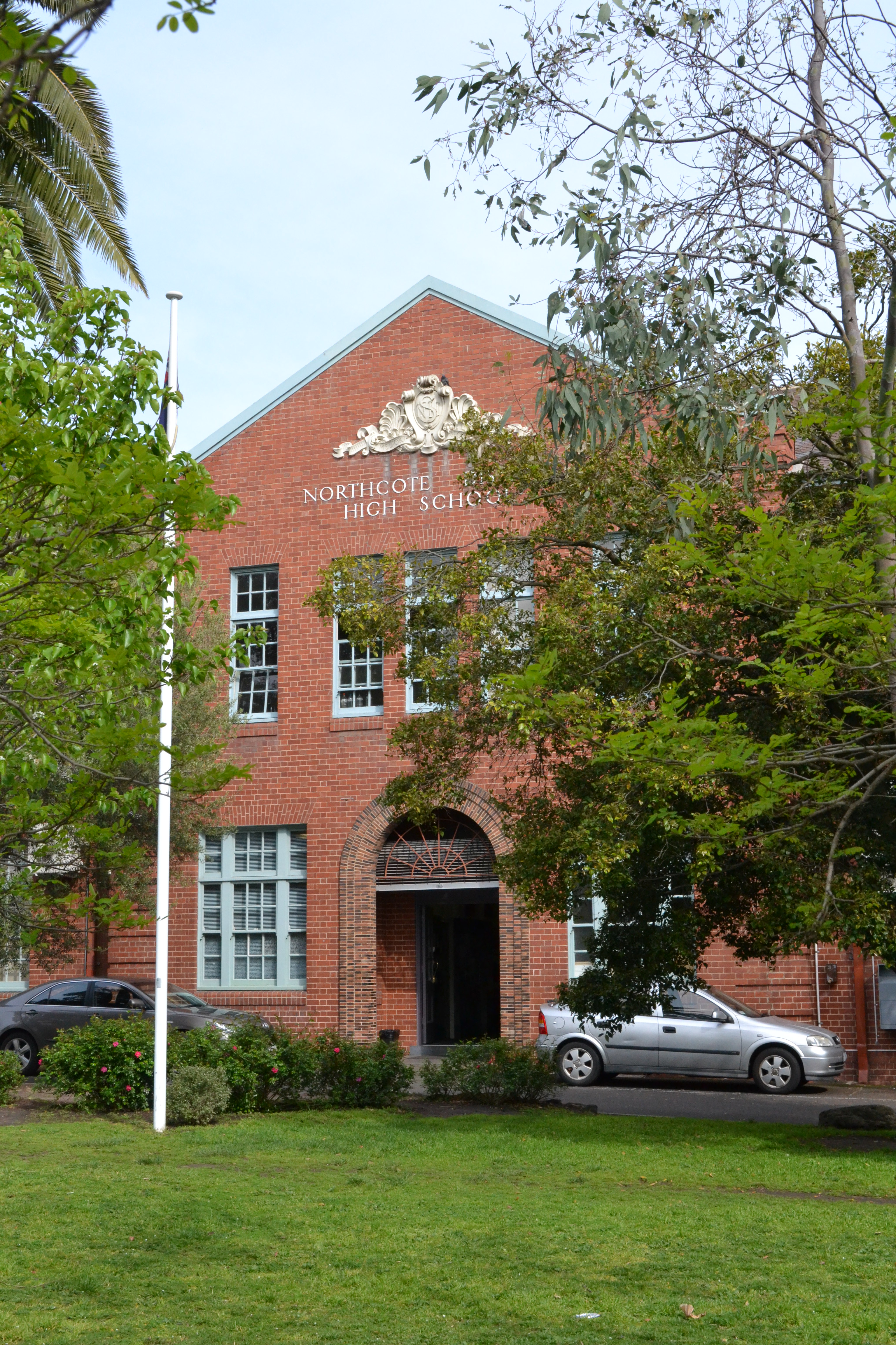 Northcote High School, main building. The school is located in Northcote, Melbourne, Victoria, Australia